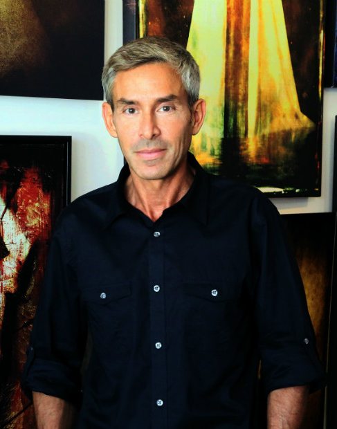 Drew Tal